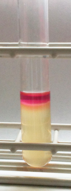 Escherichia coli in SIM agar, showing a negative result for H2S production, a positive result for the indole test (after Kovac's reagent has been added), and a positive result for motility